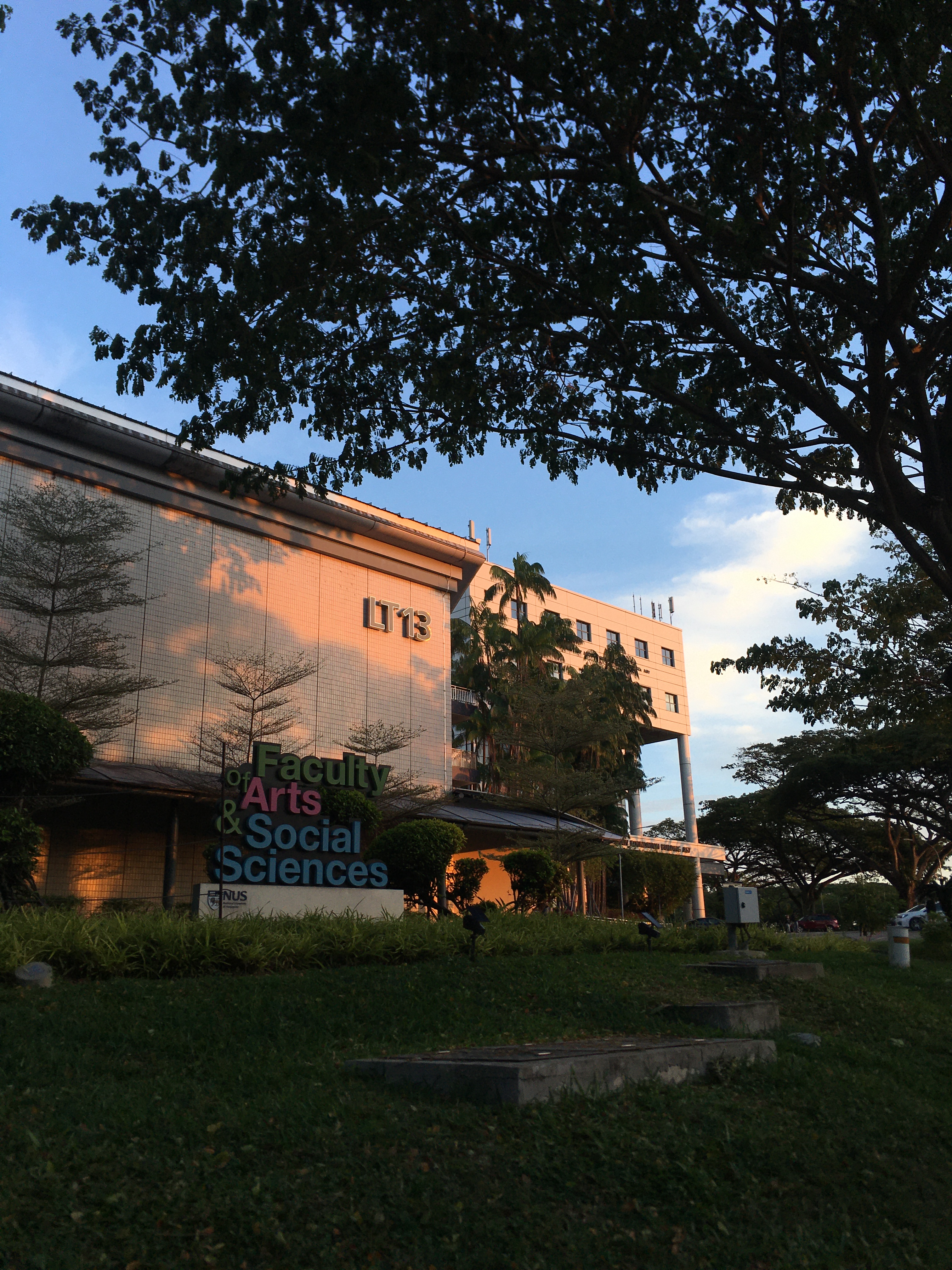 The Faculty of Arts and Social Sciences in the National University of Singapore. Buildings shown include LT13 and the Shaw Foundation Building (AS7).